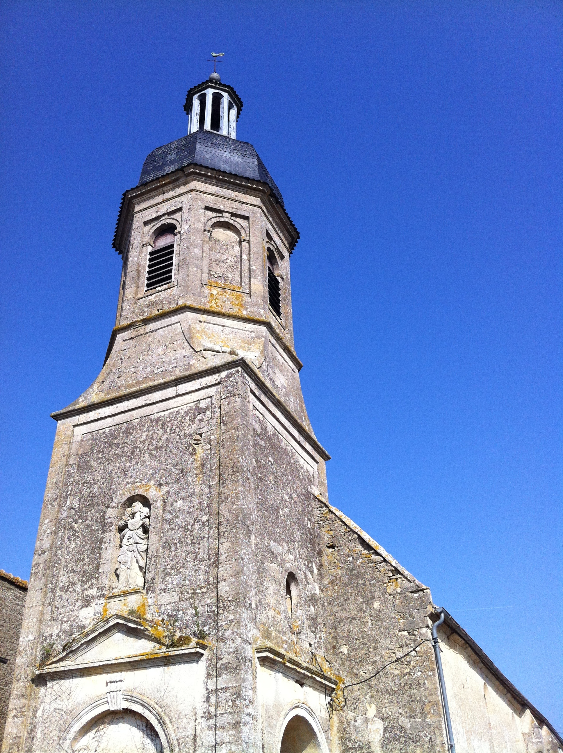 stone church tower in Sai